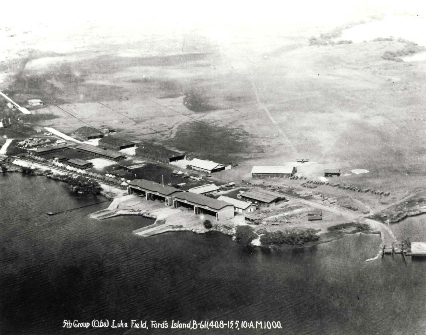 A view of Luke Field, later Ford Island, assumed to be taken by a US Army Air Service aviator in the course of his duties.